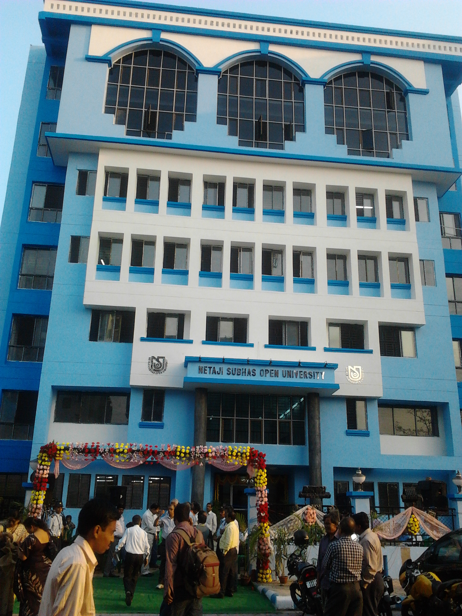 Head Quarter of NSOU